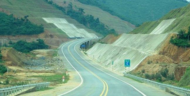 2-laned expressway in Vietnam